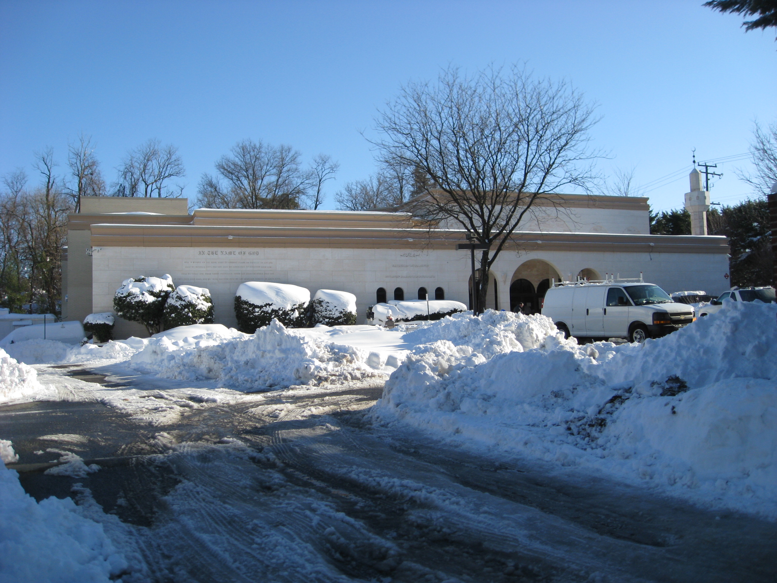 Dar Al-Hijrah Islamic Center in the Falls Church area of Virginia, United States of America.